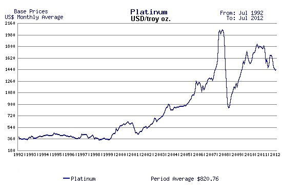 The price of platinum in US dollars per Troy ounce from July 1992 to July 2012.